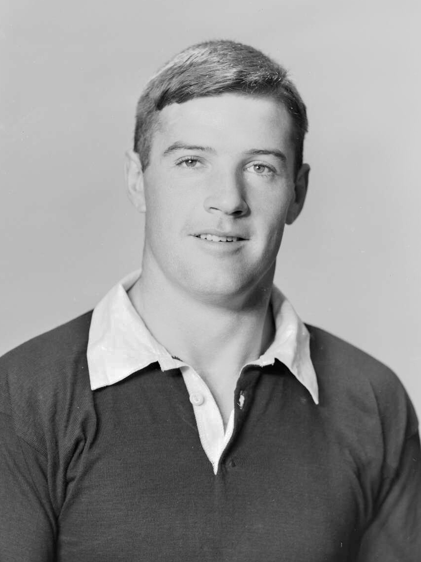 Photograph of rugby player Thomas Coughland, taken by Crown Studio Ltd of Wellington.